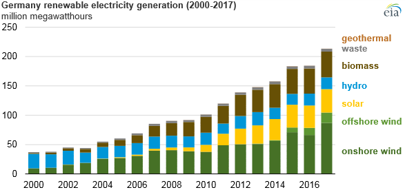 Between 2000 and 2013, Germany’s total electric generating capacity expanded by nearly 100 gigawatts (GW). Additions to wind and solar drove nearly all of this growth, while nuclear, natural gas, and coal-fired capacity declined. May 29, 2019